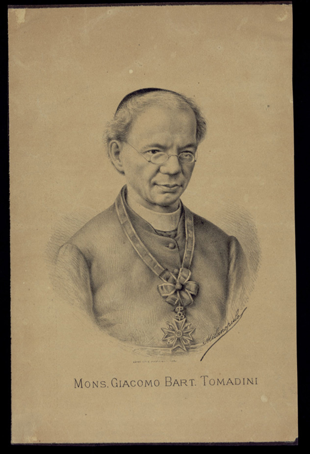 Portrait of Jacopo Tomadini, composer (1820-1883), 1883.